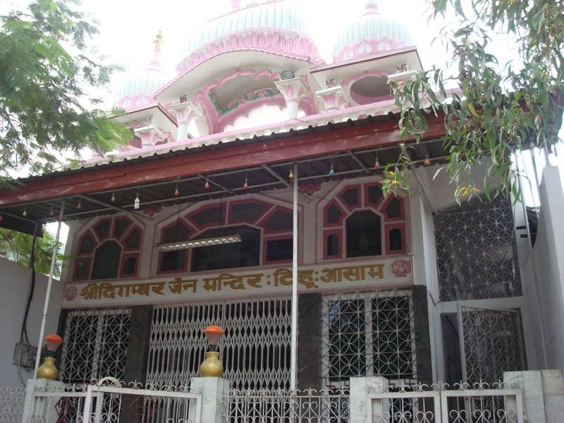 Tihu jain mandir